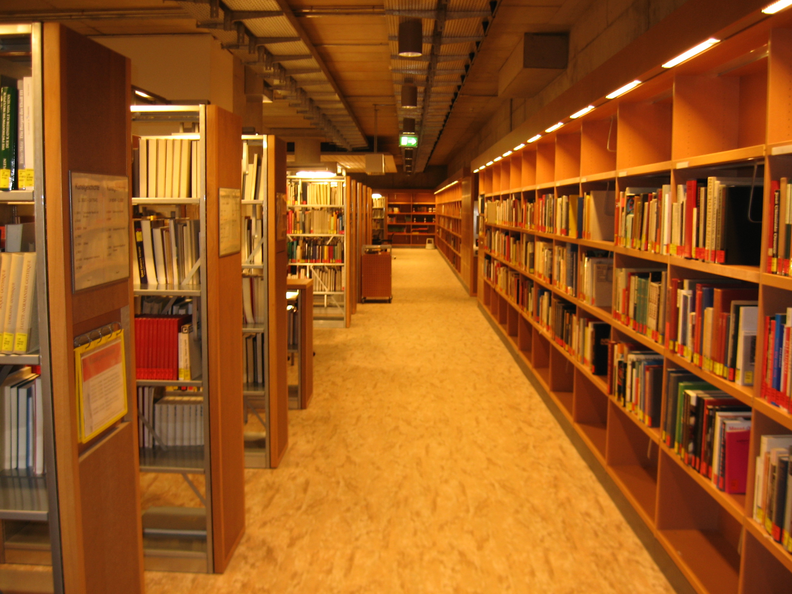 Interior of the SLUB